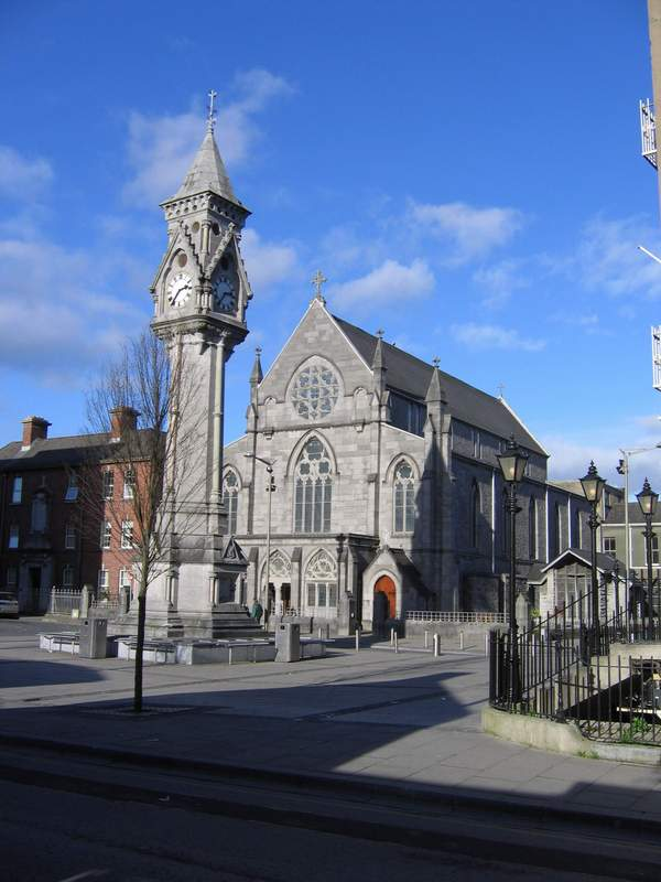 St. Saviour's Dominican Church, designed by the architects James Pain and his brother George Richard Pain in 1815.